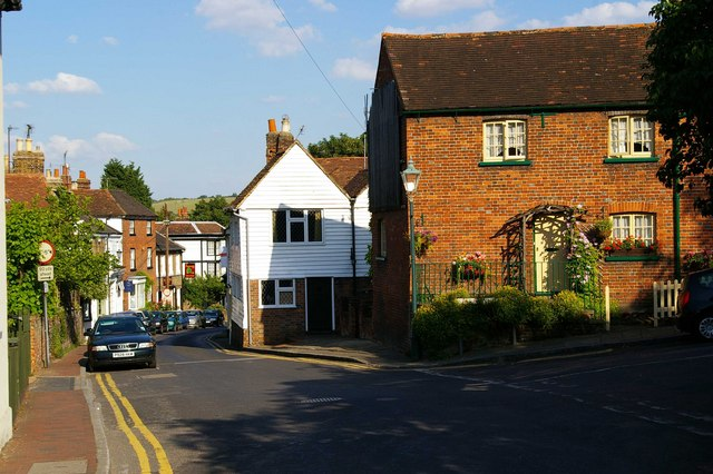 High St Farningham. This is High St Farningham with Savepenny Lane to the right